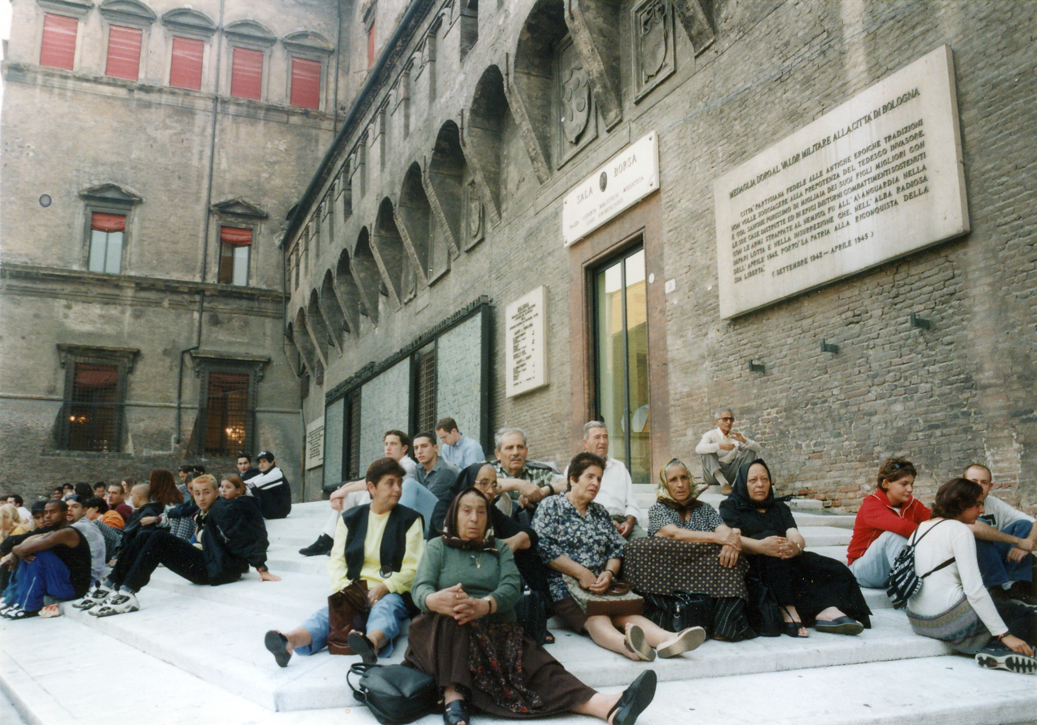 Believers in front of the Biblioteca Salaborsa, the main public library in Bologna, during the celebration of the Great Jubilee in 2000